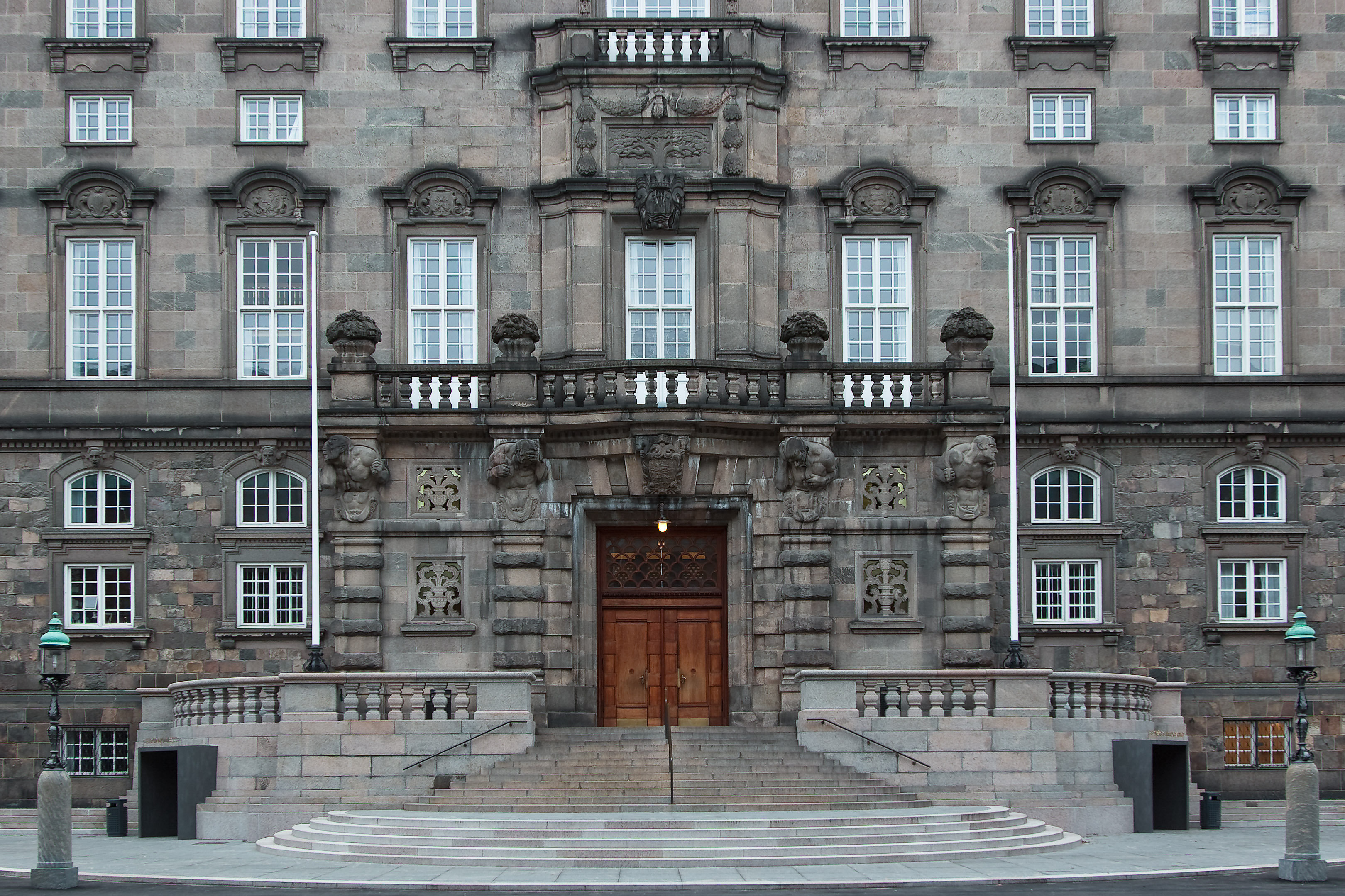 Entrance to the Danish parliament, Folketinget, in Christiansborg Palace, Copenhagen